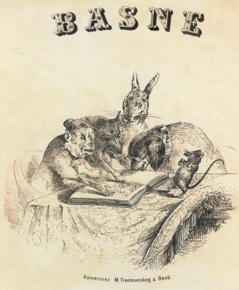 Illustration of Adalbert Lauppert Peharnik for the book cover of Ignatije Čivić Rohrski`s book: "Basne i kratke pripovijesti od raznih pisaca", Karlovac, 1844.